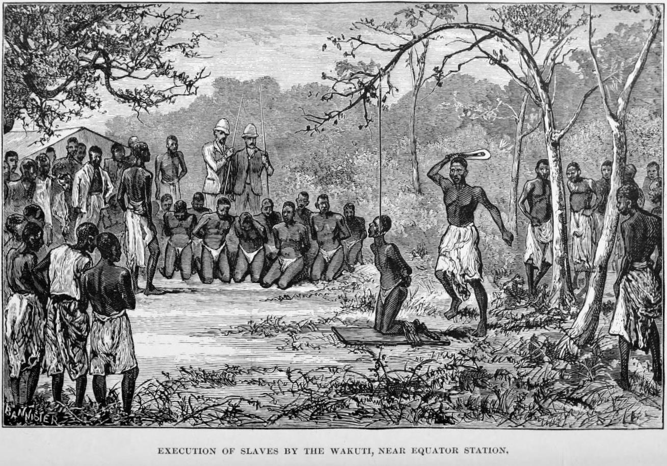 Pictures excerpted from HM Stanley's book "The Congo and the founding of its free state; a story of work and exploration (1885)"